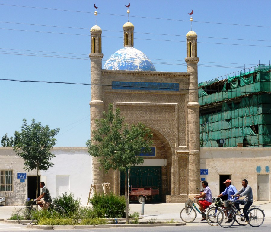 A new mosque downtown Charklik (Ruoqiang)